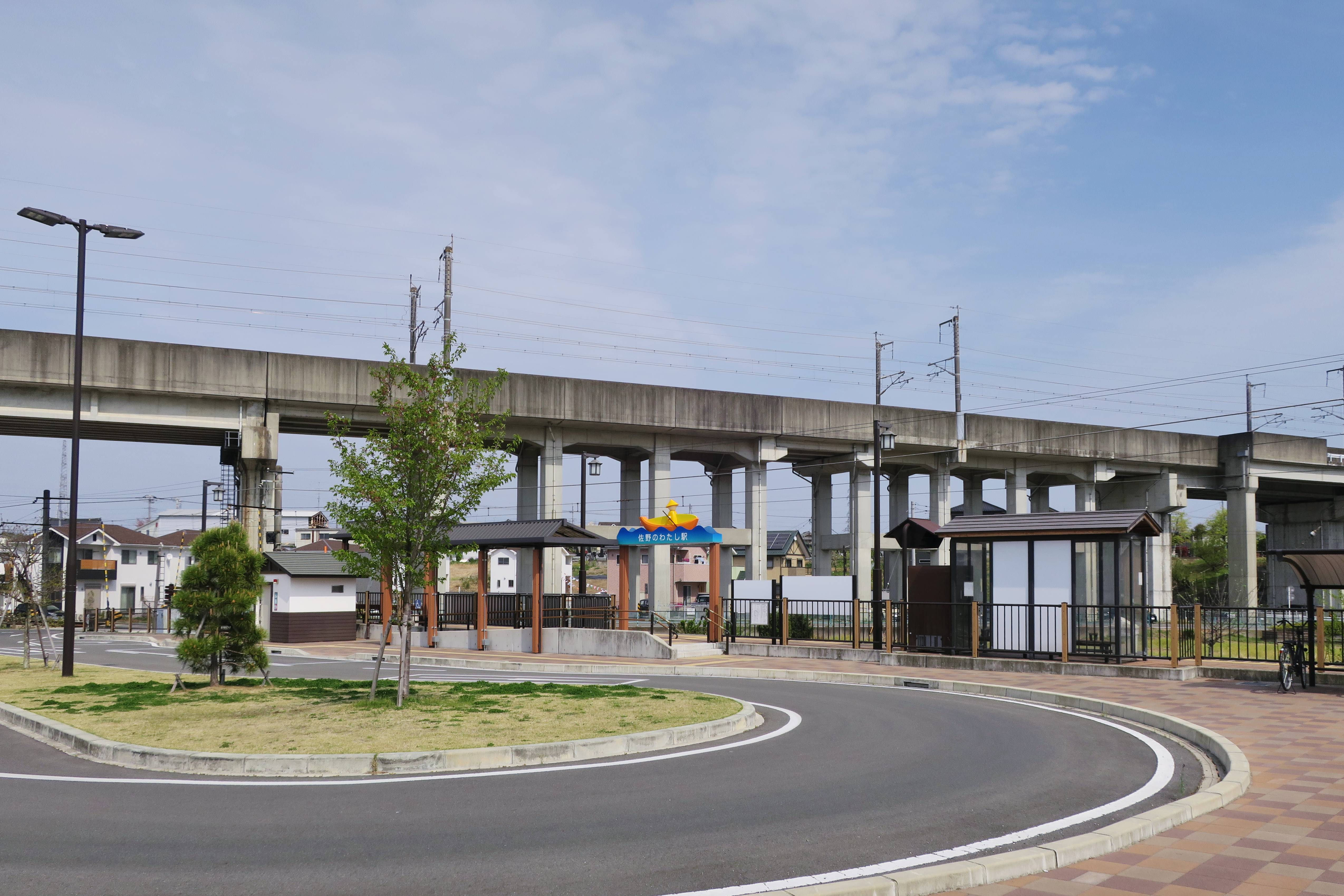 Sanonowatashi Station.